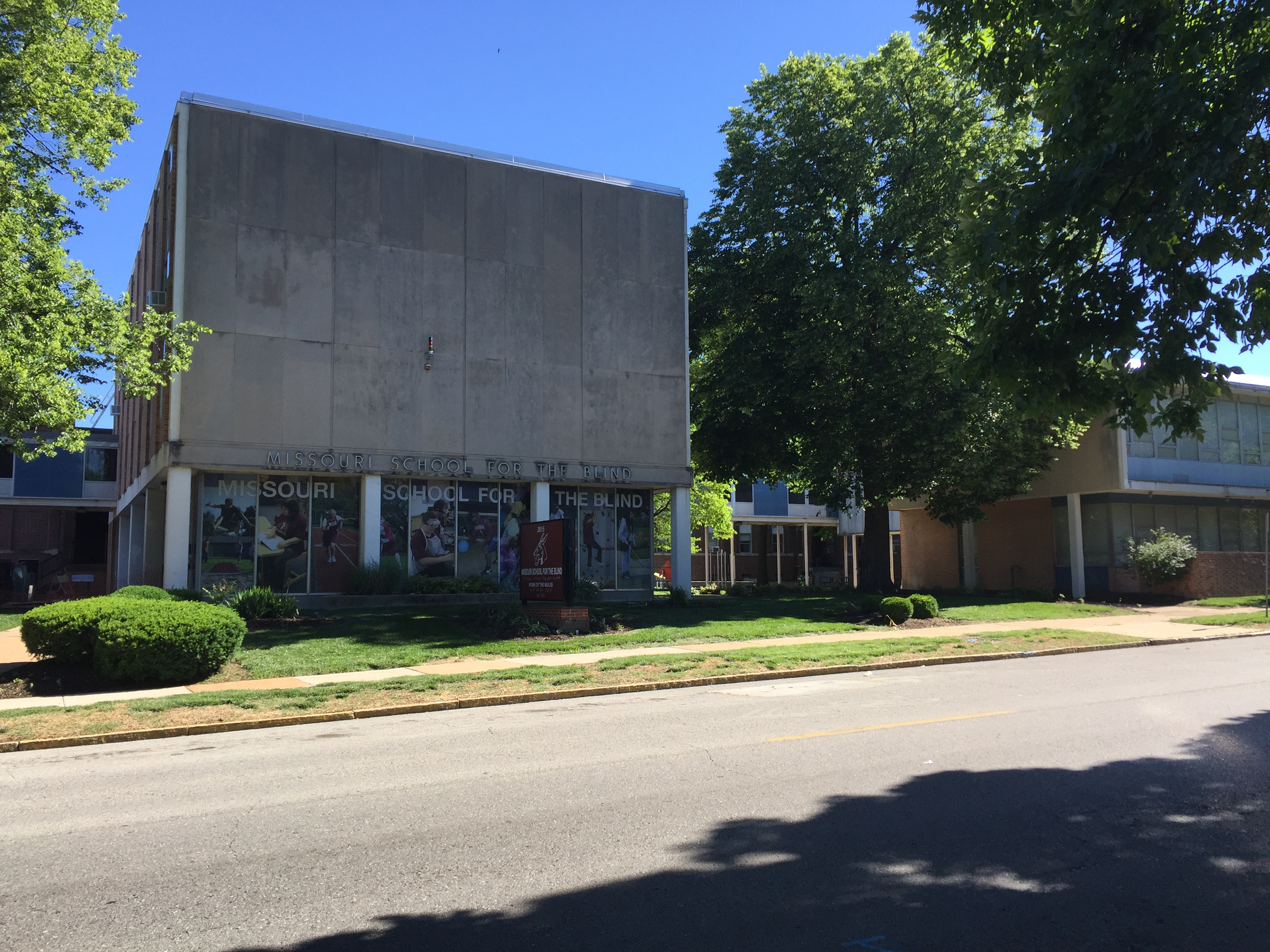 Missouri School for the Blind